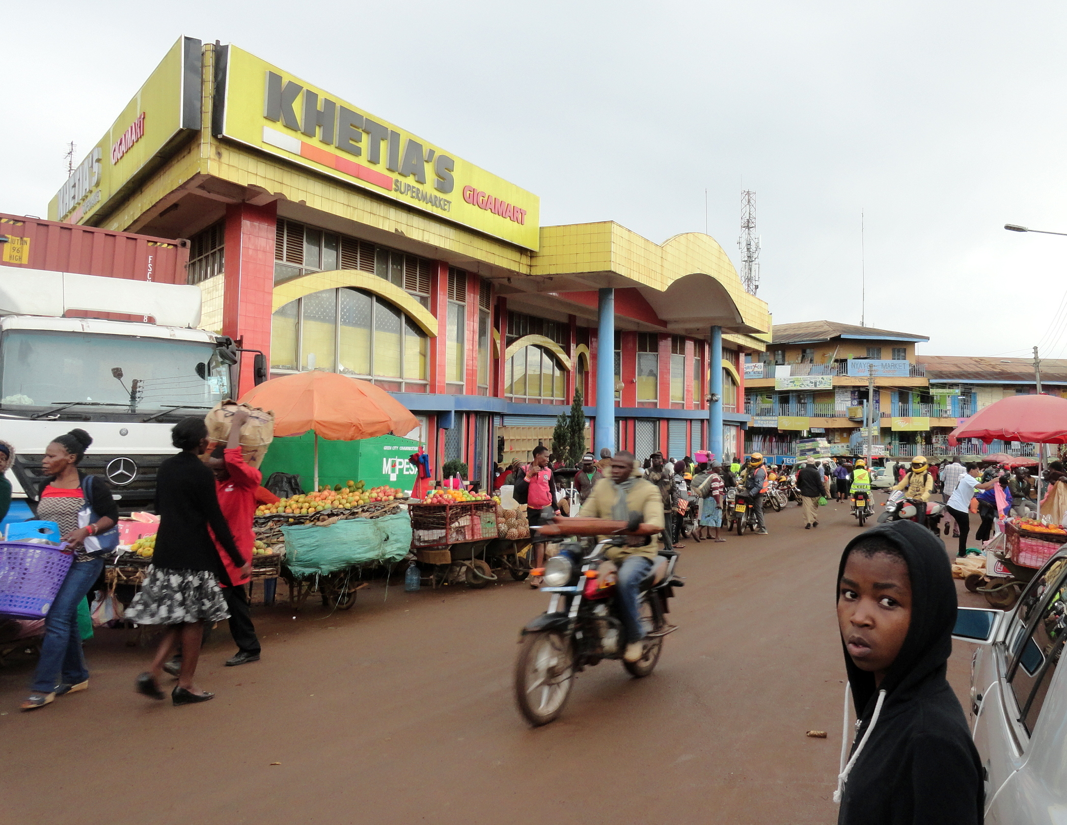 Downtown Kitale November 2019